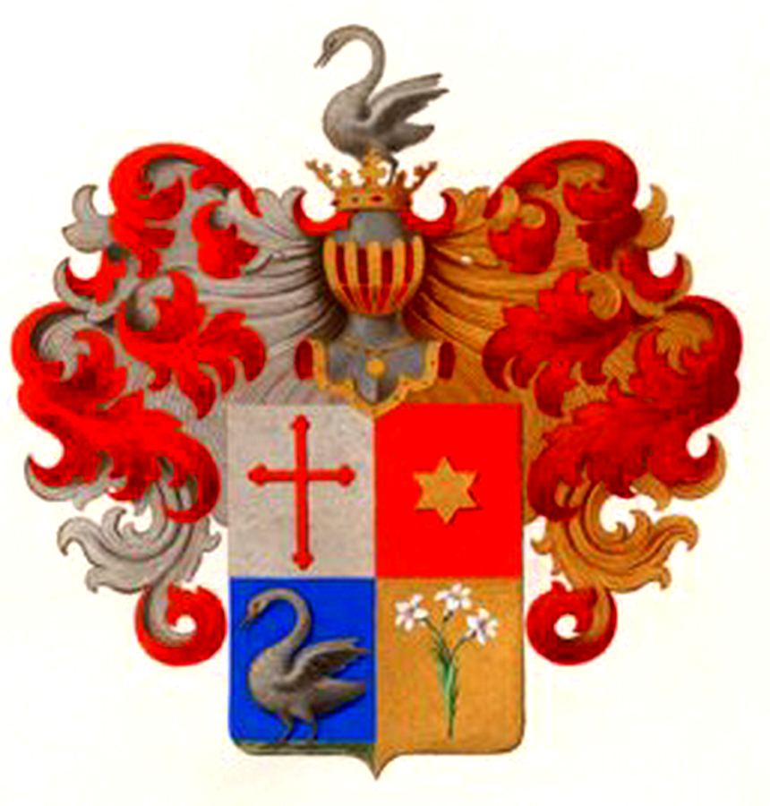 Coat of Arms of family Pletnev